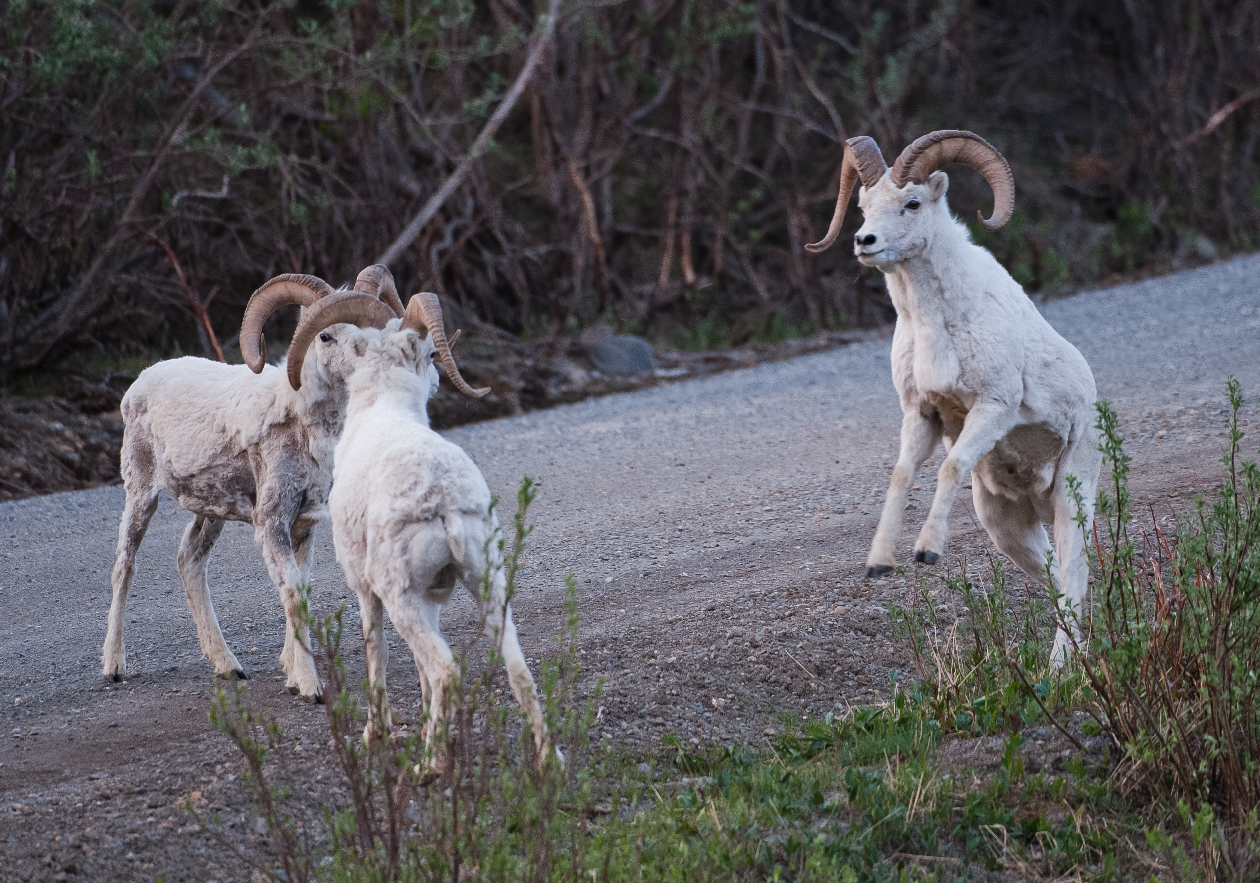 (NPS Photo/Kent Miller)